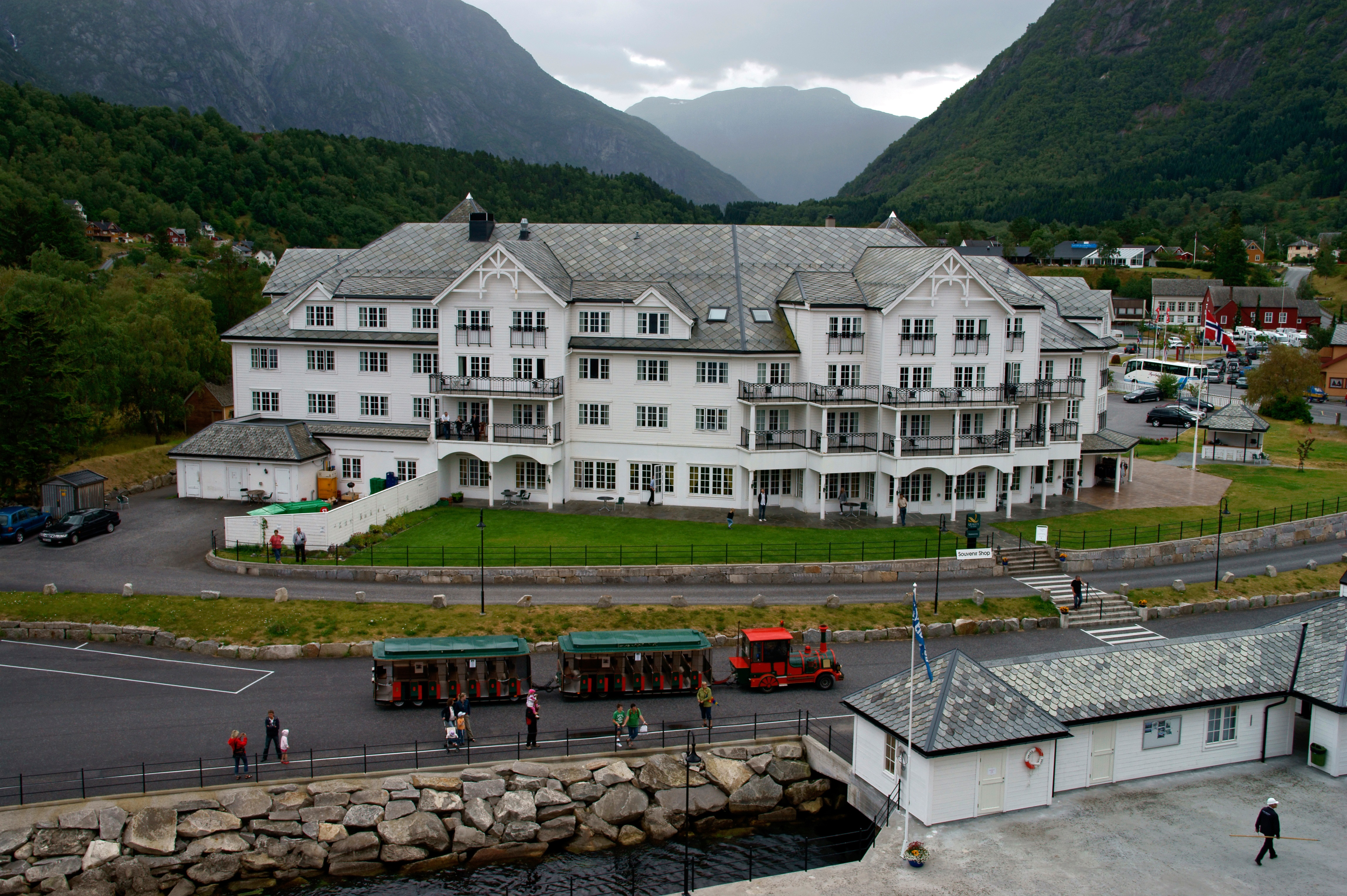 Quality Hotell and Resort Vøringsfoss sett frå cruiseskip ved kai i Eidfjord. Completed 2001. Architect: Lorentz Gedde-Dahl.